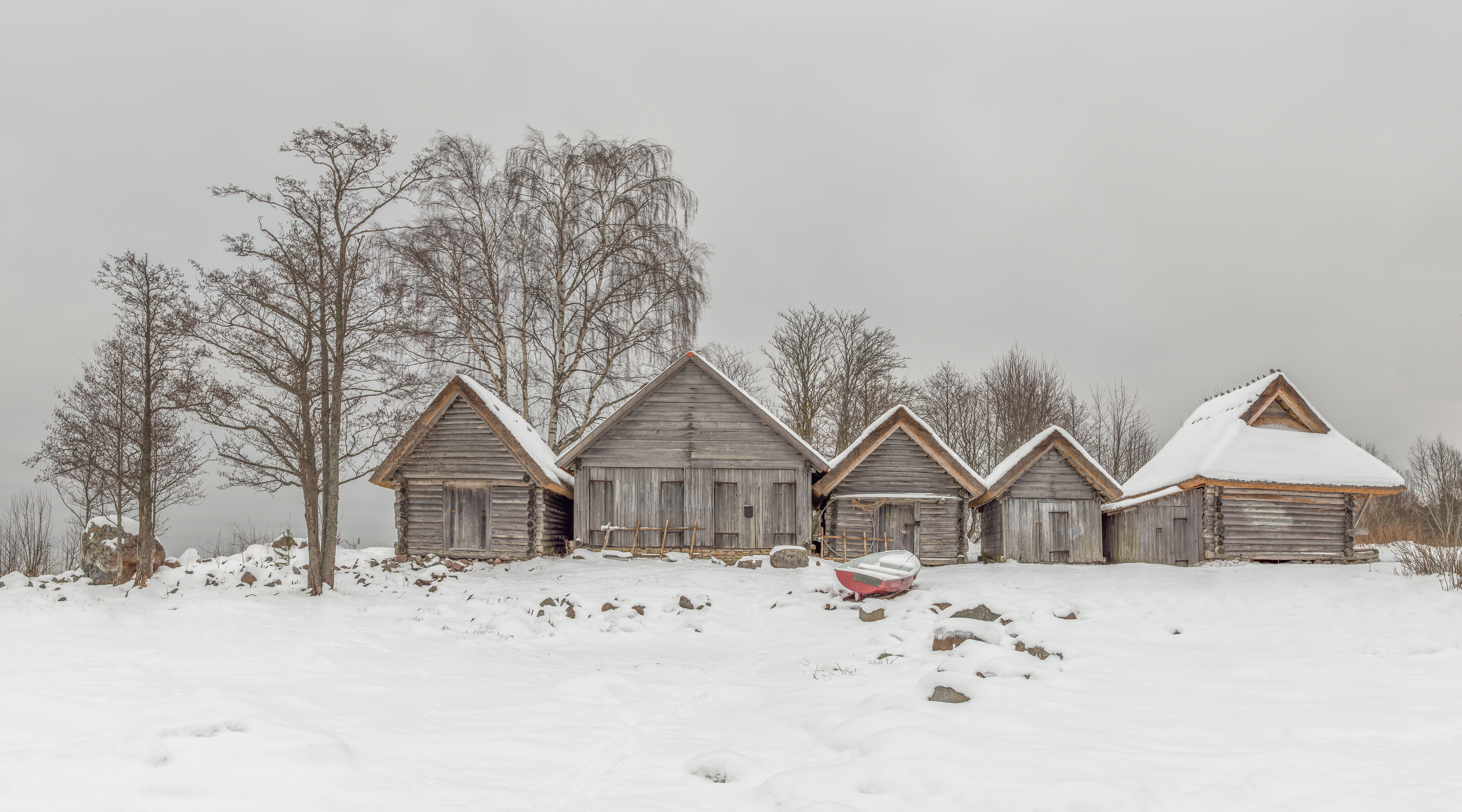 Fishermen huts by the sea in Altja fishermen village, Lahemaa National Park, Estonia